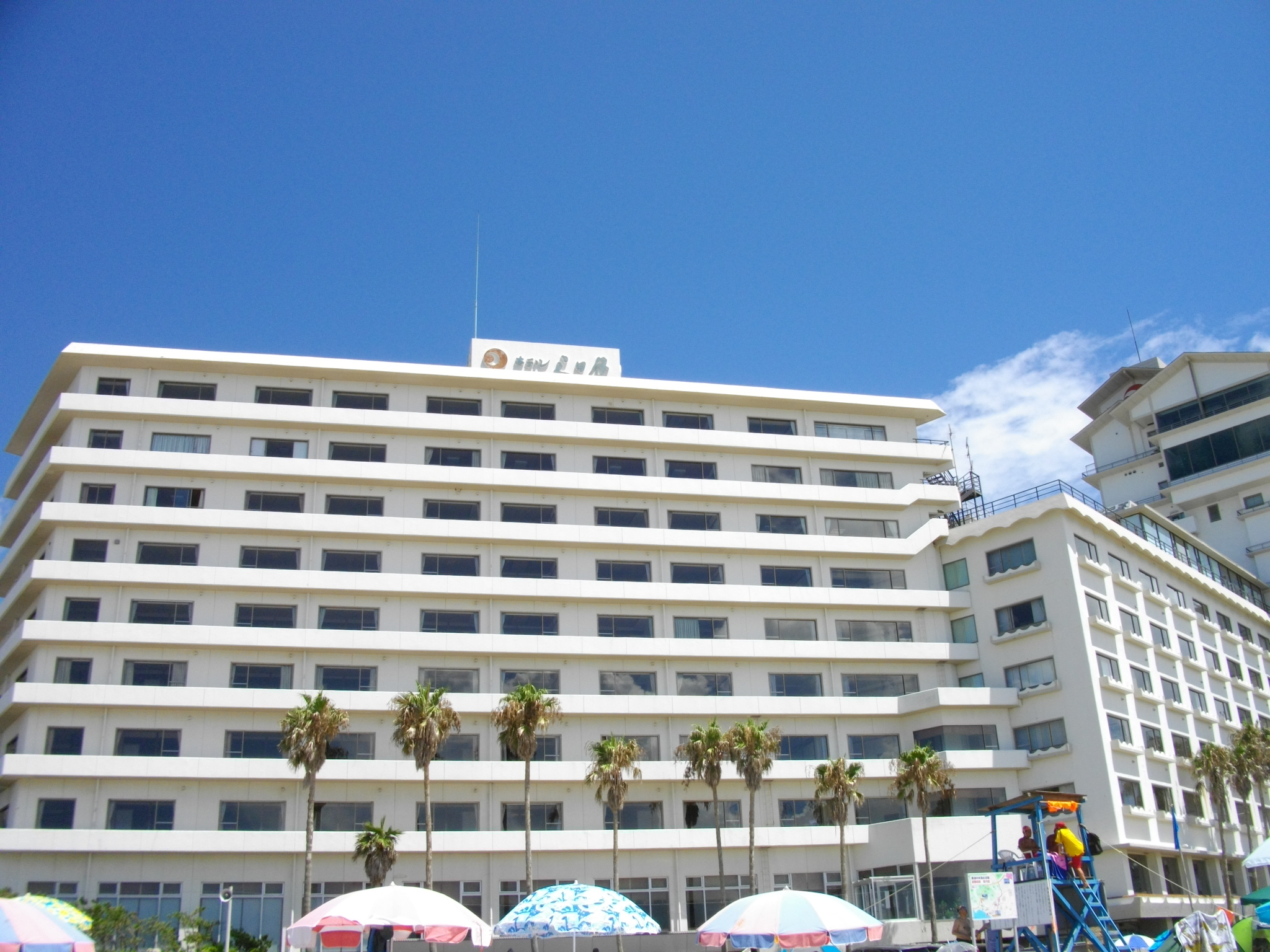 Katsuura Spa Hotel Mikazuki